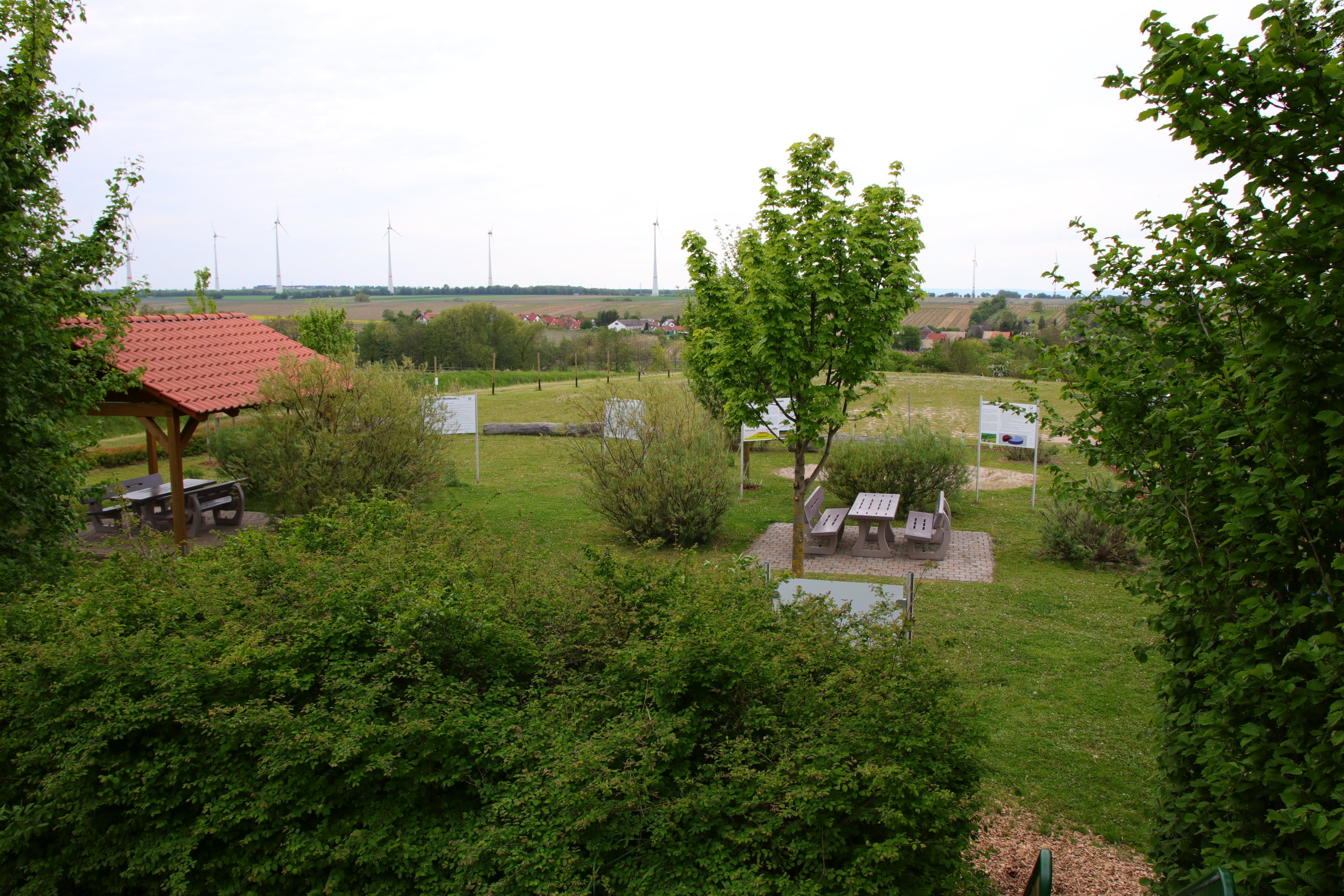 Panorama from the geographic centre of Rhenish Hesse at the water reservoir in Gabsheim.